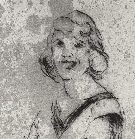 To be Sylvia’s daughter Size: 40 cm × 60 cm "Grace Kelly Oliphant Street" Exposition, at Tel Aviv (Israel).